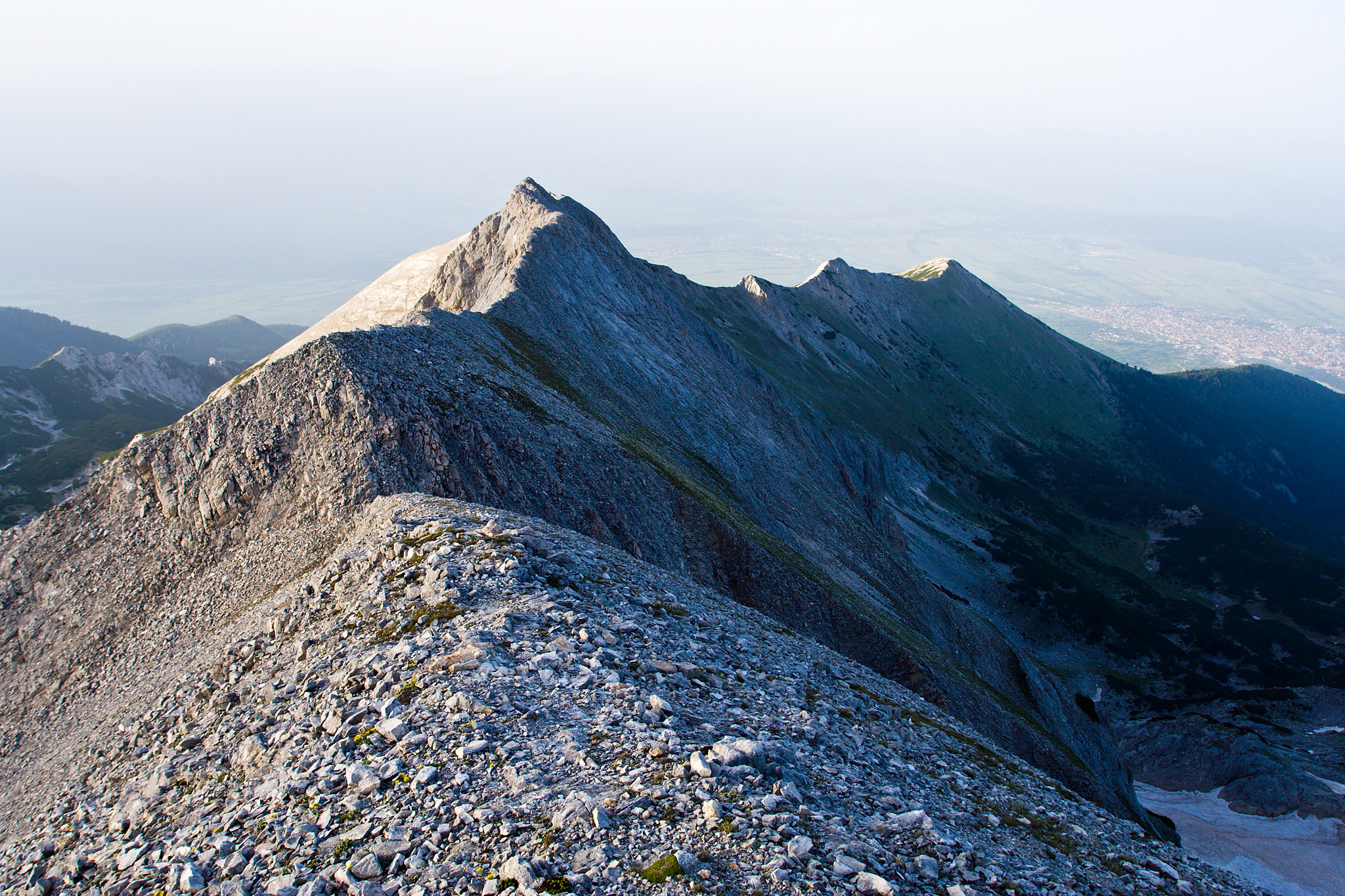 Koteshki rid and Koteshki chal peak, Pirin mountain, Bulgaria